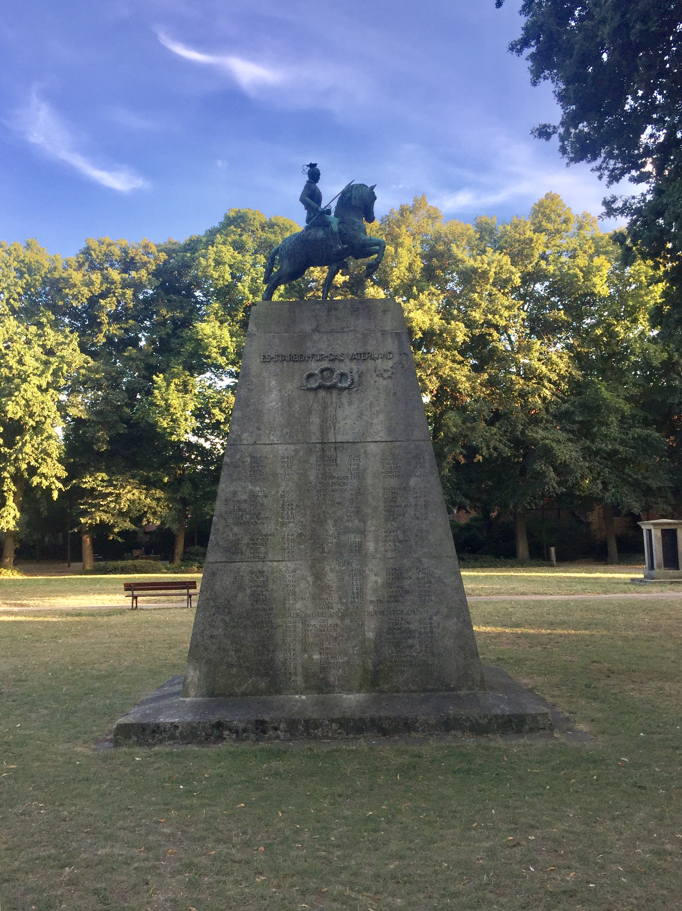 War memorial to the soldiers of the 2. Hannoversches Ulanen-Regiment Nr.14 of the Prussian Army who gave their lives during the 1st World War. The memorial is in the town of Verden (Aller), situated next to the Dom zu Verden (main church).